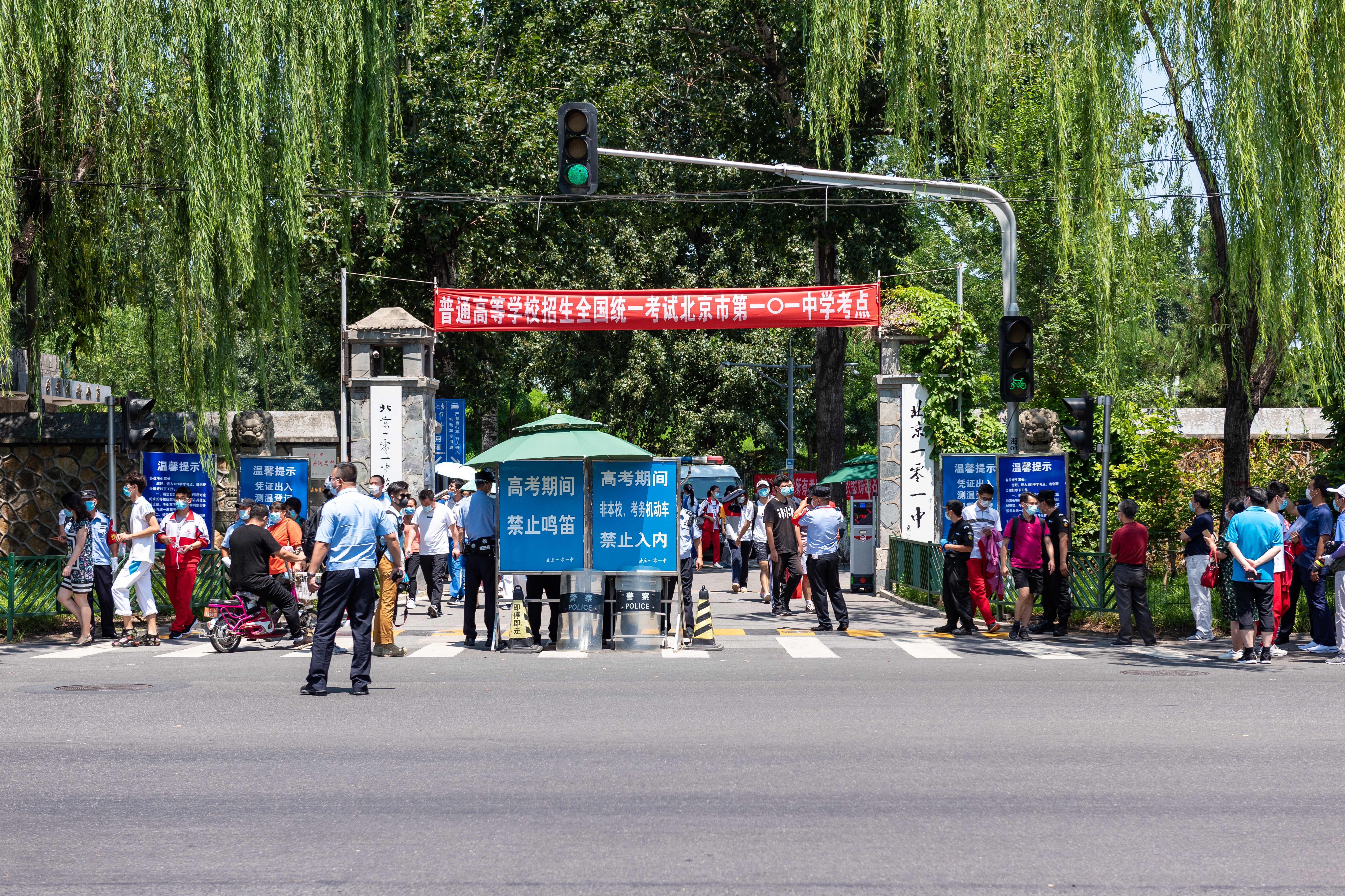 The examinees are stepping out after the Chinese examination (first subject).